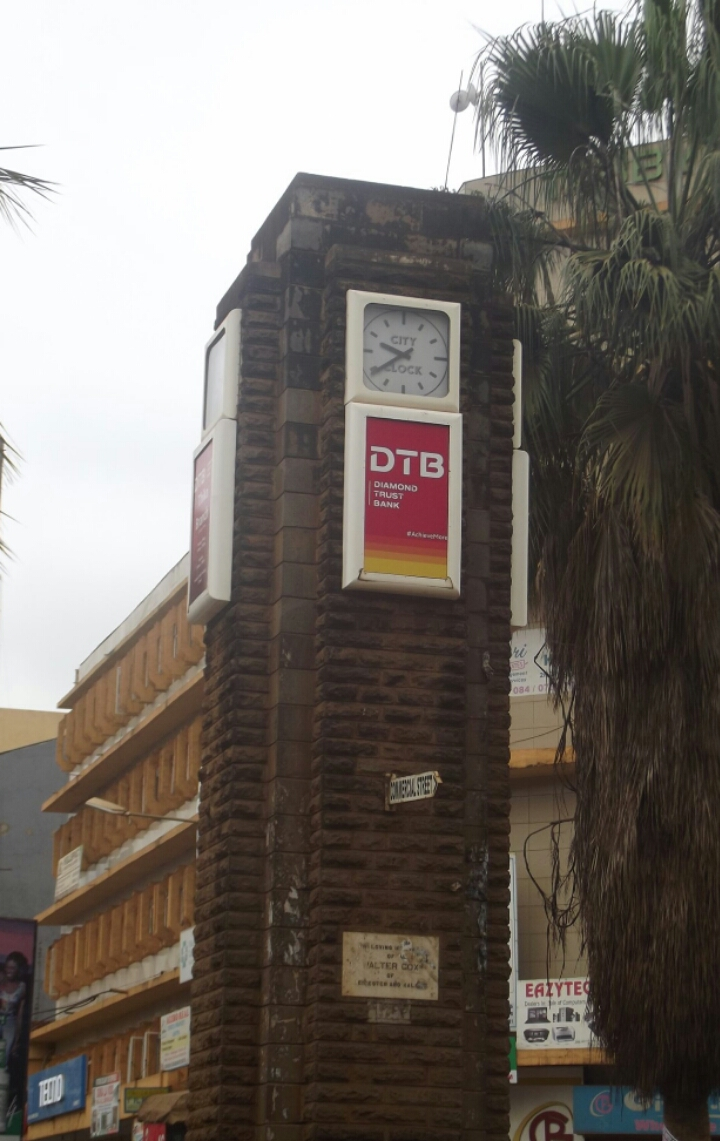 A british colonial pillar in Thika town